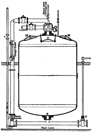 A kier, from 10 to 12 ft. in height and from 6 to 7 ft. in diameter. Shown in sectional elevation. An egg-ended cylindrical vessel constructed of stout boiler plate. It stands on three iron legs riveted to the sides, but not shown in the figure. The bottom exit pipe E is covered with a shielf-shaped false bottom of boiler plate, or (and this is more usual) the whole bottom of the kier is covered with large rounded stones fromt he riber bed, the object in either case being simply to provide space for the accumulation of liquor and to prevent the pipe E being blocked. The cloth is evenly packed up to within about 3 to 4 ft. of the manholes M, when lime water is run in through the liquor pipe until the level of the liquid reaches within about 2 ft. of the top of the foods. The mangoles are now closed, and steam in turned on the injector J by opening the valve v. The effect of this is to suck the liquor through E, and to force it up through pipe P into the top of the kier, where it dashes against the umbrella-shaped shield U and is distributed over the pieces, through which is percolates, untl on arriving at E it is again carried to the top of the kier, a continuous circulation being thus effected. As the circulation proceeds, the steam condensing in the liquor rapidly heats the latter of the boil, and as soon as, in the opinion of the foreman, all air has been expelled, the blow-through tap is closed and the boiling is continued for periods varying from six to twelve hours under 20-60 lb pressure. Steam is now turned off, and by opening the valve V the liquor, which is of a dark-brown colour, is forced out by the pressure of the steam it contains.